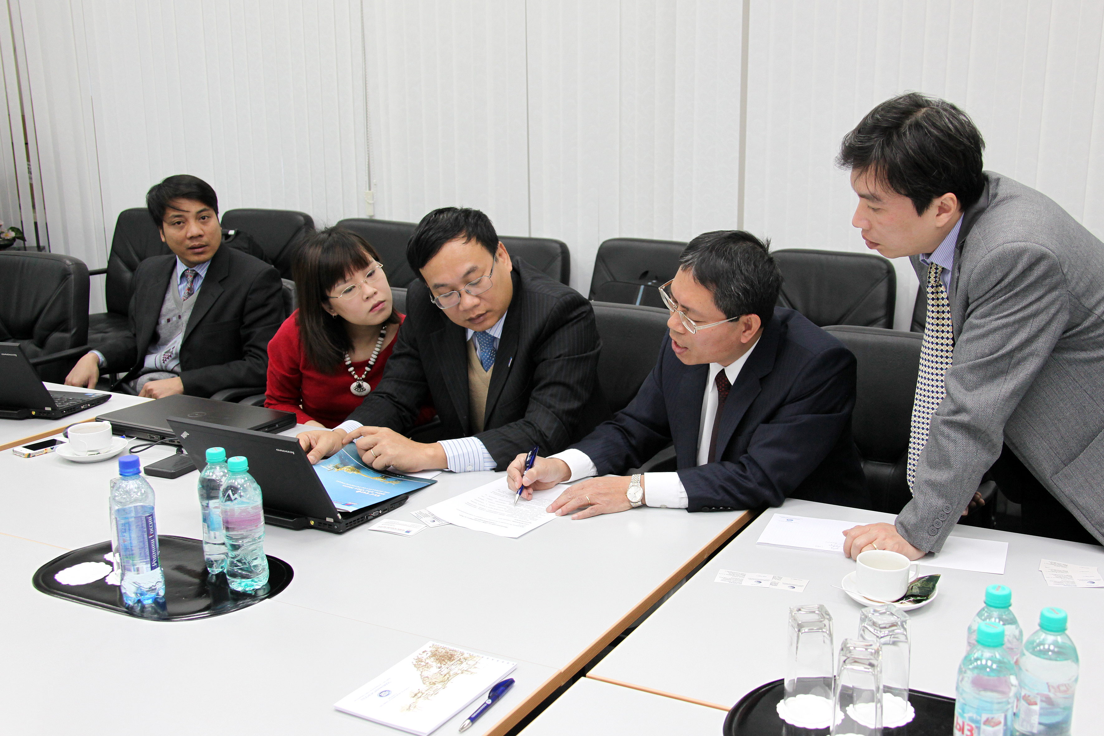 Experts from KNG Petrovietnam work in LLC TyumenNIIgiprogas about geological and reservoir simulation model of the Severo-Purovskoe gas condensate field. Tyumen, Russia.